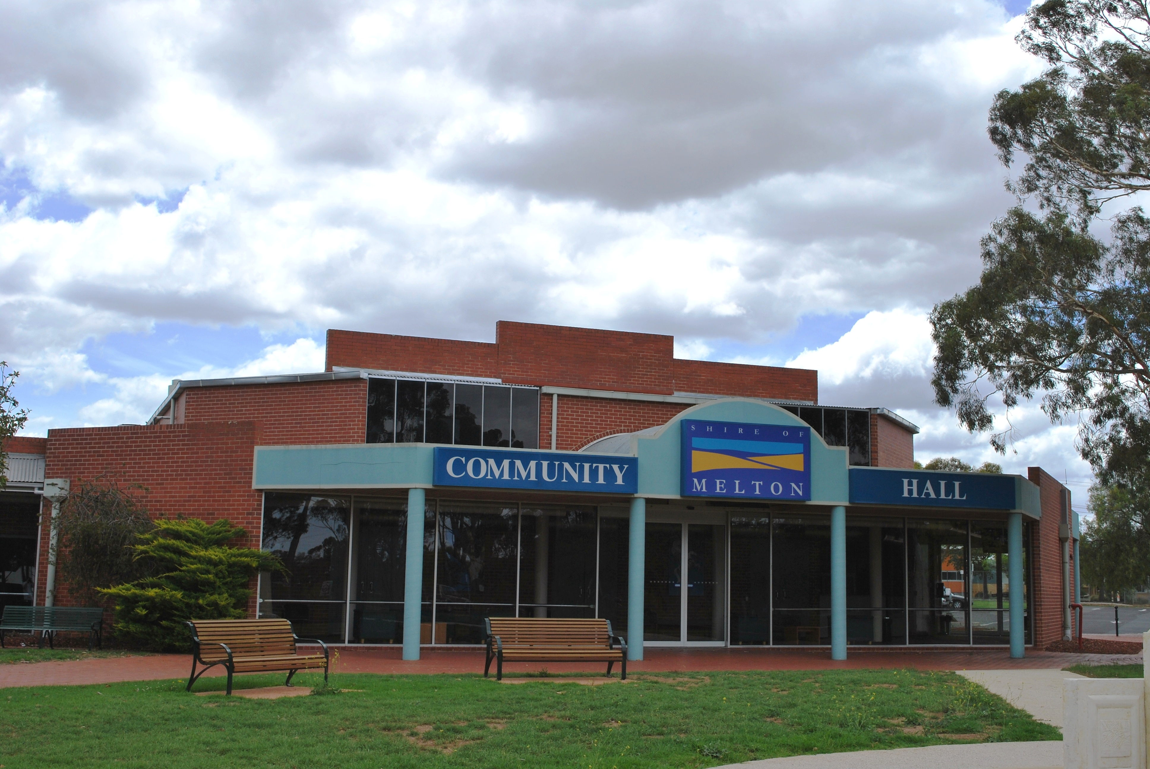 Community hall in Melton, Victoria